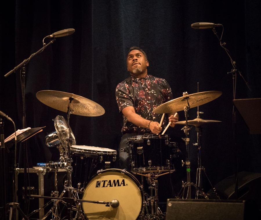 John Patitucci Electric Guitar Quartet at the stage of Cosmopolite. The concert took place on 12. May 2017 in Oslo. Lineup: John Patitucci (bass guitar) Adam Rogers (guitar) Steve Cardenas (guitar) Nate Smith (drums)